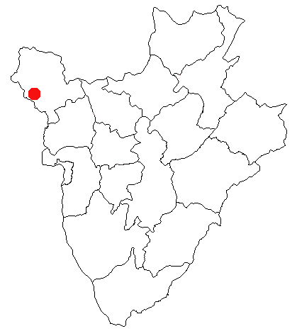 Cibitoke, Burundi Location Map; created with the GIMP. Made by User:Acntx.